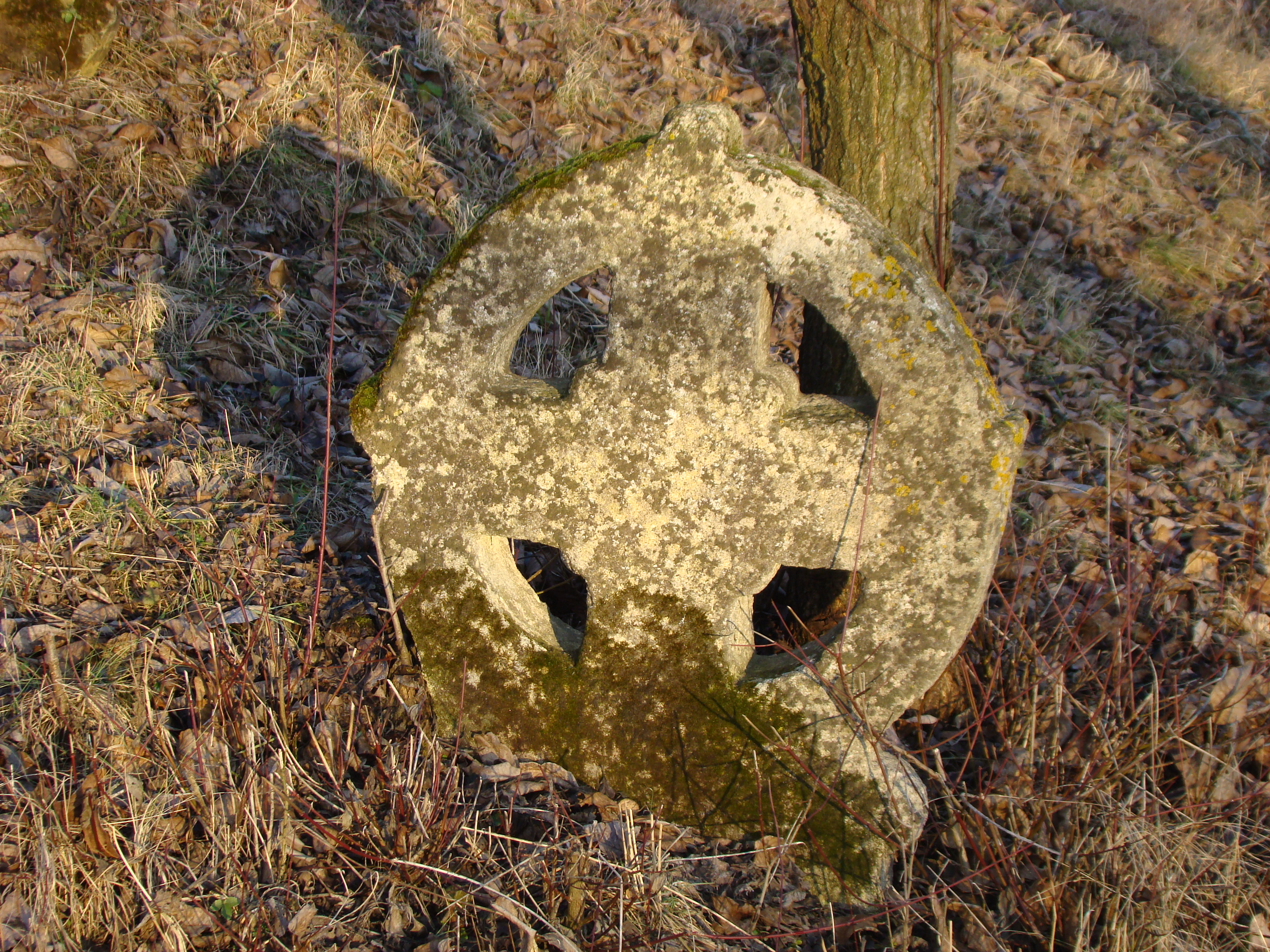 Wooden church in Domnin, Sălaj